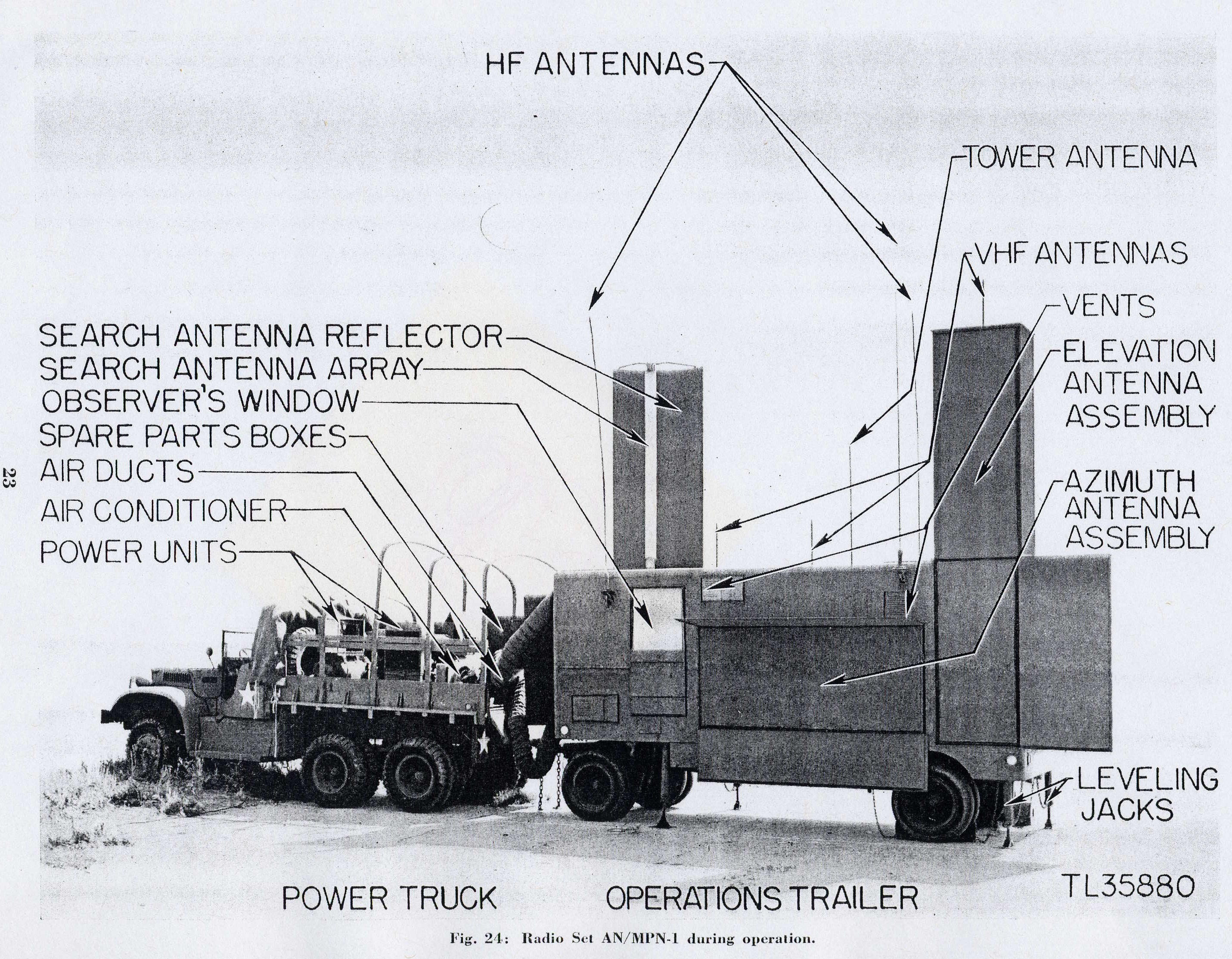 AN/MPN-1 radar